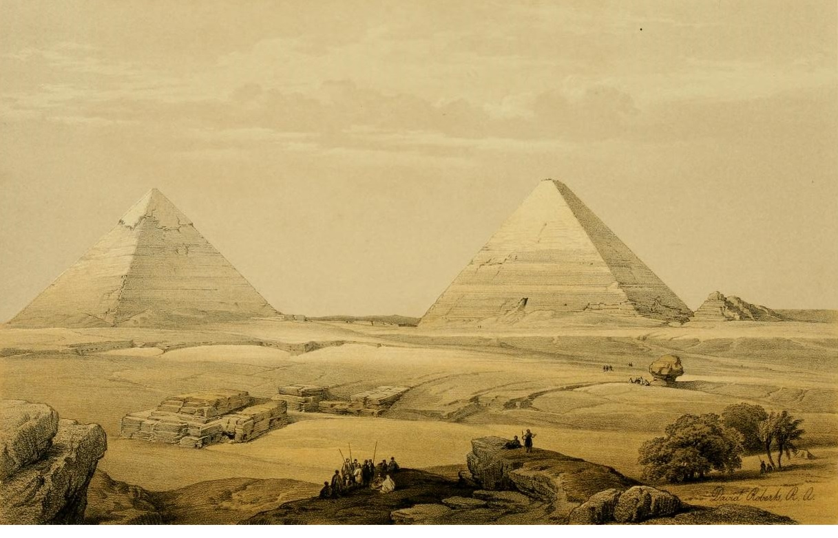 Pyramids of Geezeh. Coloured lithograph by Louis Haghe after David Roberts, 1846.